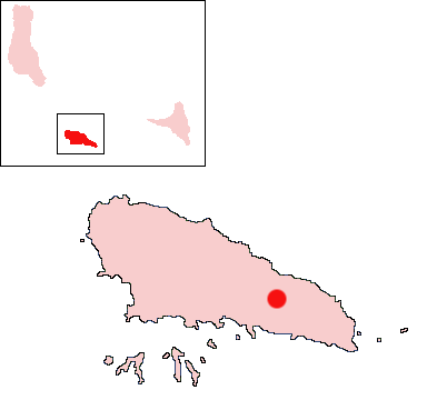 Wanani, Mohéli, Comoros Location Map; created with the GIMP. Made by User:Acntx.